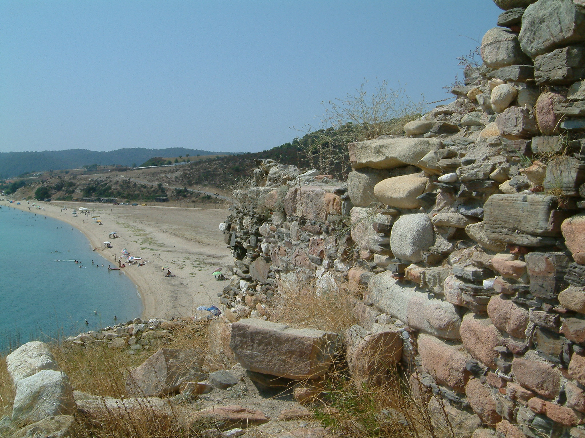 View on Pyrgos Beach, Agios Nikolaos, Chalkidiki, Greece.